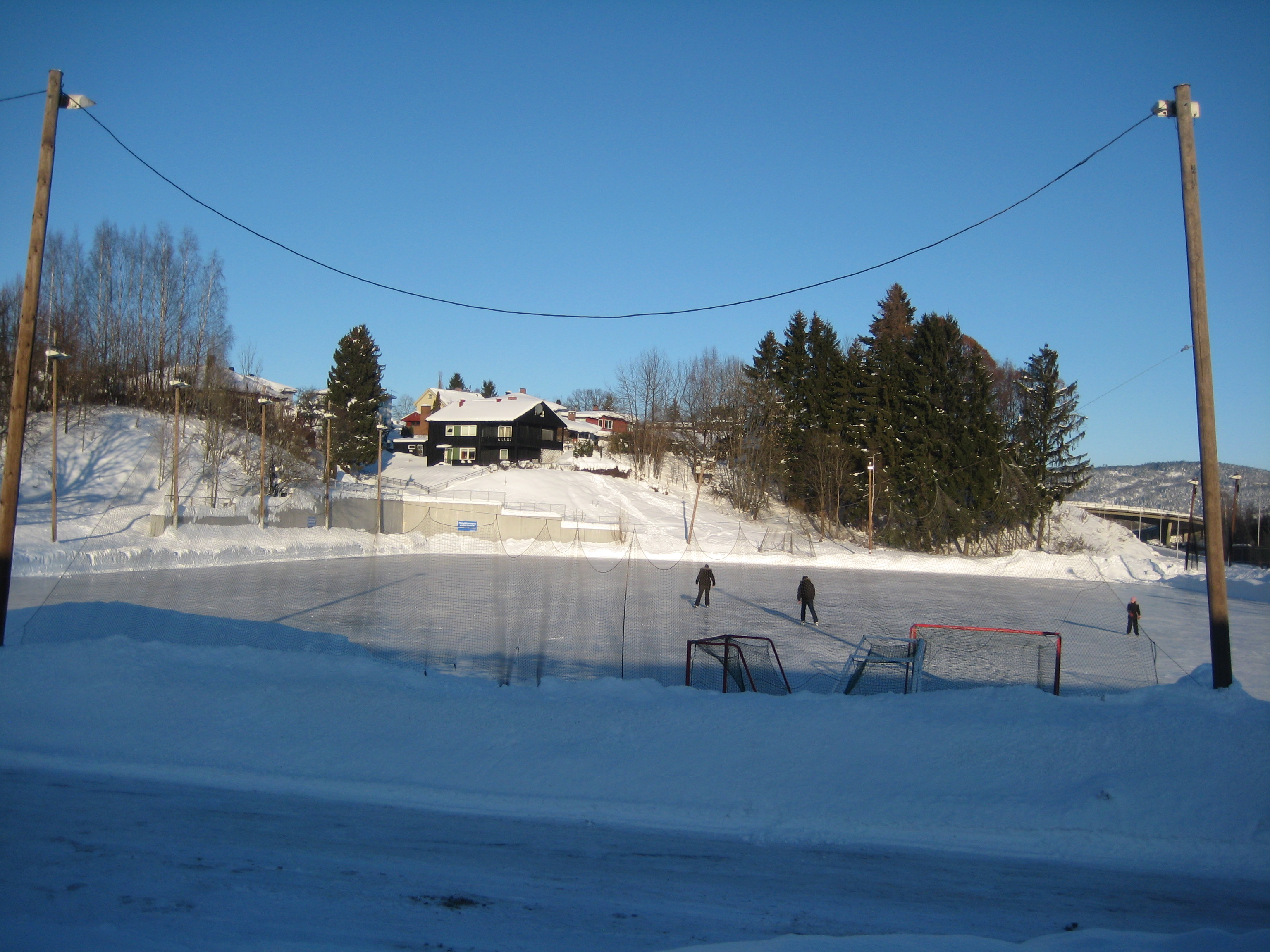 Brakeroyabanen in Drammen. Home field of norwegian bandy team Sparta/Bragerøen